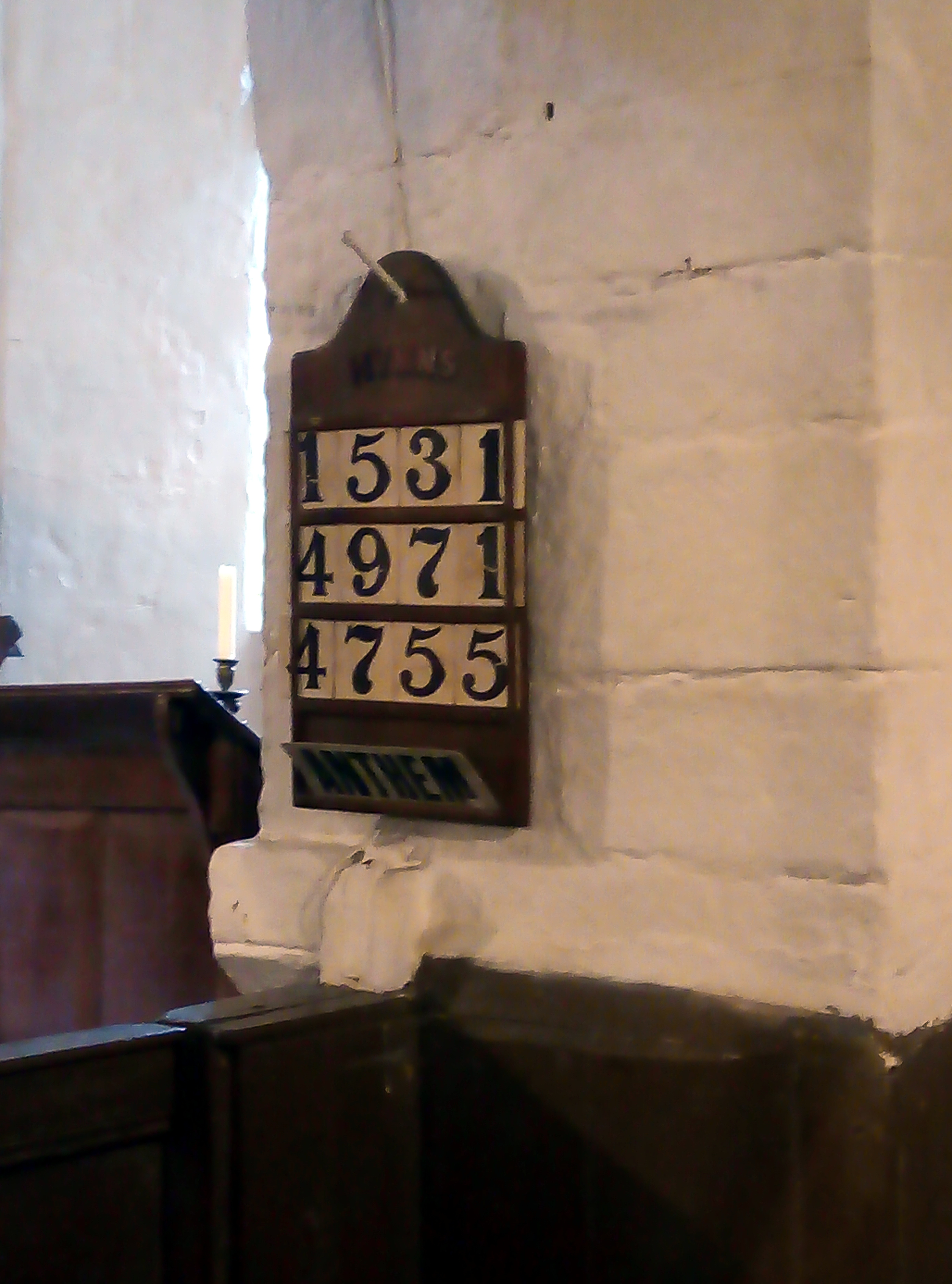 A section of old masonry in All Saints' Church, Dale Abbey, Derbyshire. The plain Norman moulding suggests an early 12th century date for the original building, possible evidence that it was established by a hermit from Derby who settled at Deepdale in that period. Said to have been used a little later by the aunt of Serlo de Grendon, known as the Gomme (godmother) of the Dale, who installed her son Richard as chaplain.